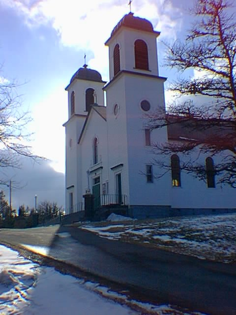 Corpus Christi Parish, the Roman Catholic Church in Northern Bay , Newfoundland, Canada.